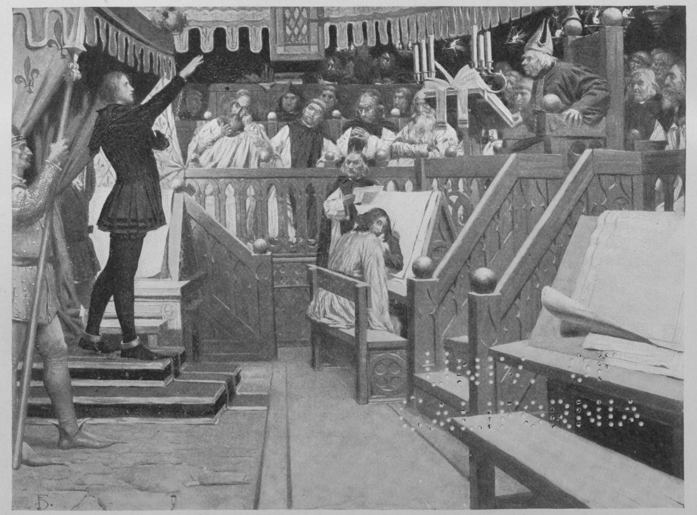 Drawing in Personal Recollections of Joan of Arc by Mark Twain. The 1906 edition includes original drawings by Frank DuMond. From page 469 of File:Personal Recollections of Joan of Arc.djvu.